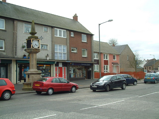 Time I headed home Clock in the centre of Slamannan village